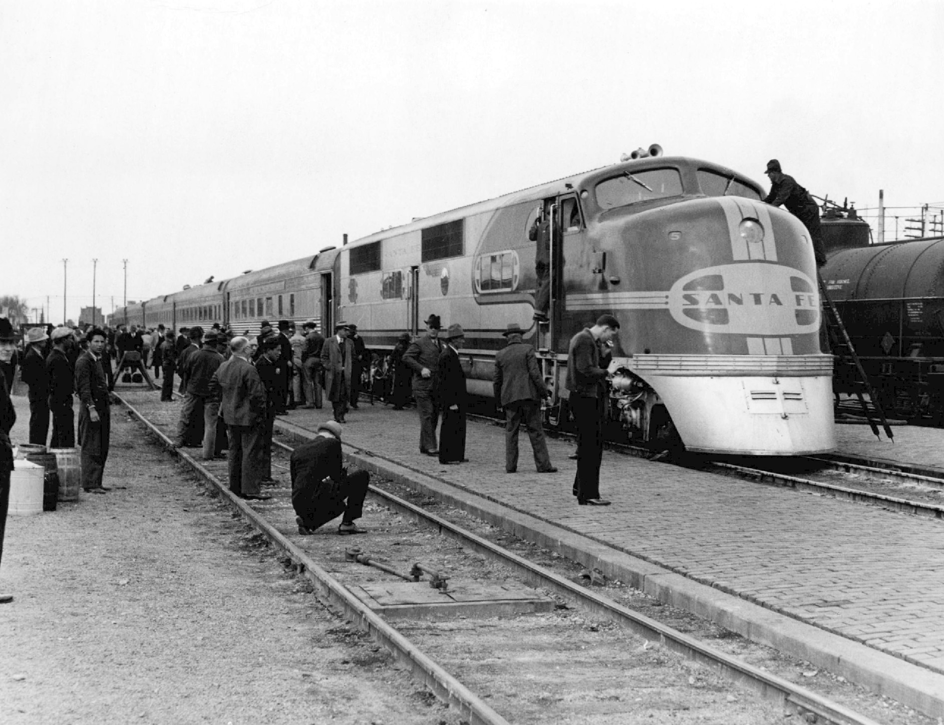 Photo of El Capitan at Albuquerque. The train was fairly new at this time. It was being billed as a budget way to travel.